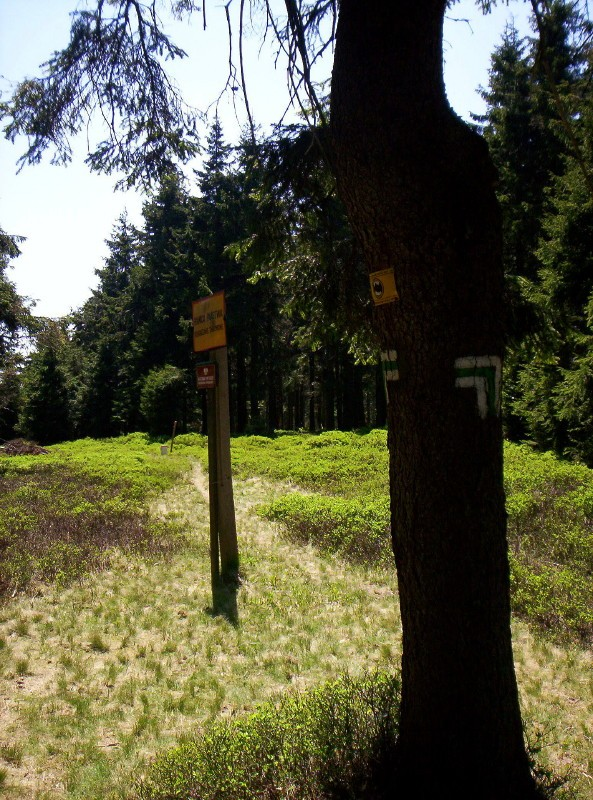 Iwinka in Bialskie Mountains, Sudety Mountains, Poland